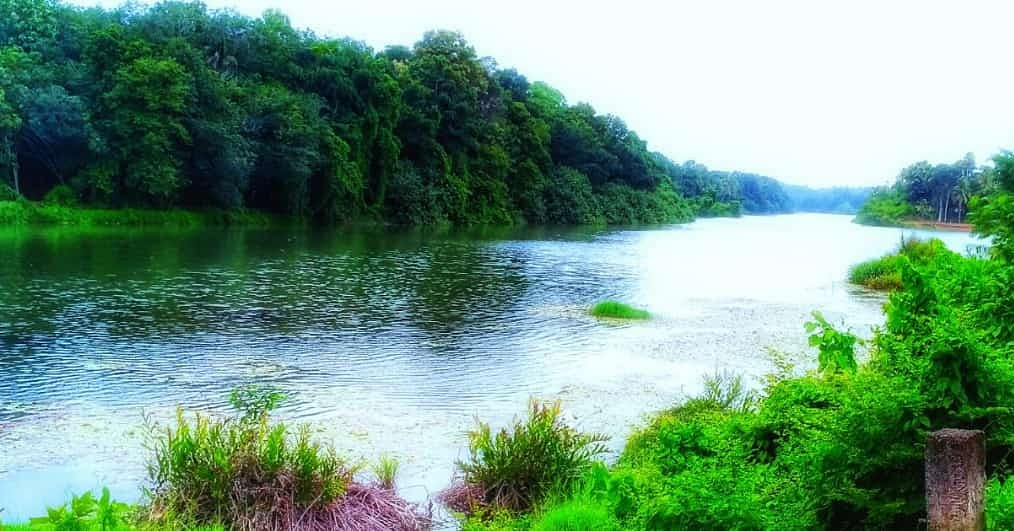 കല്ലട നദി - ഉപ്പൂട് ഭാഗം Kallada river near Uppood